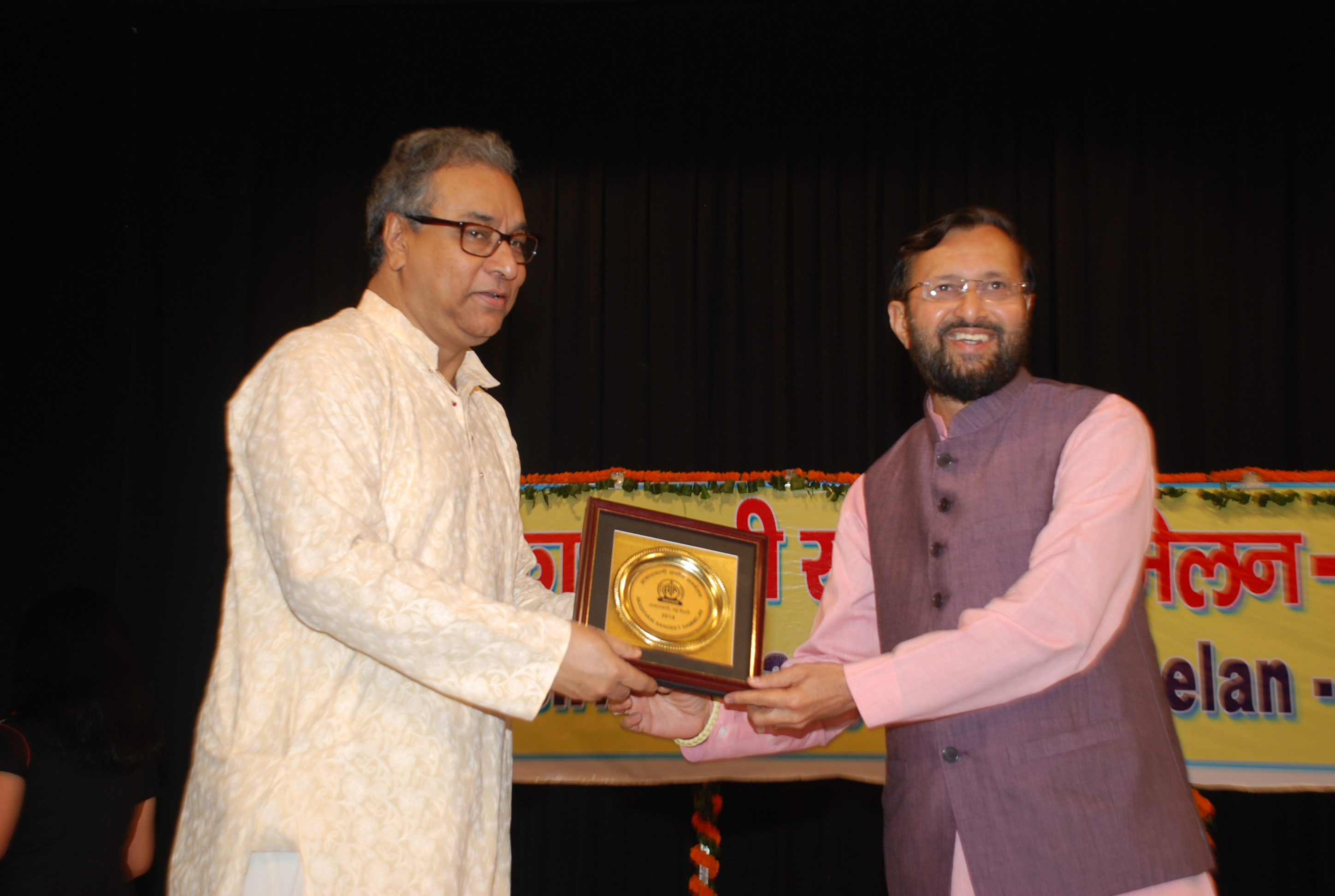 Jawhar Sircar with Honorable Minister Of Environment Mr. Prakesh Javadekar